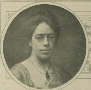 Mary Lynda Dorothea Grier, principal of Lady Margaret Hall, Oxford